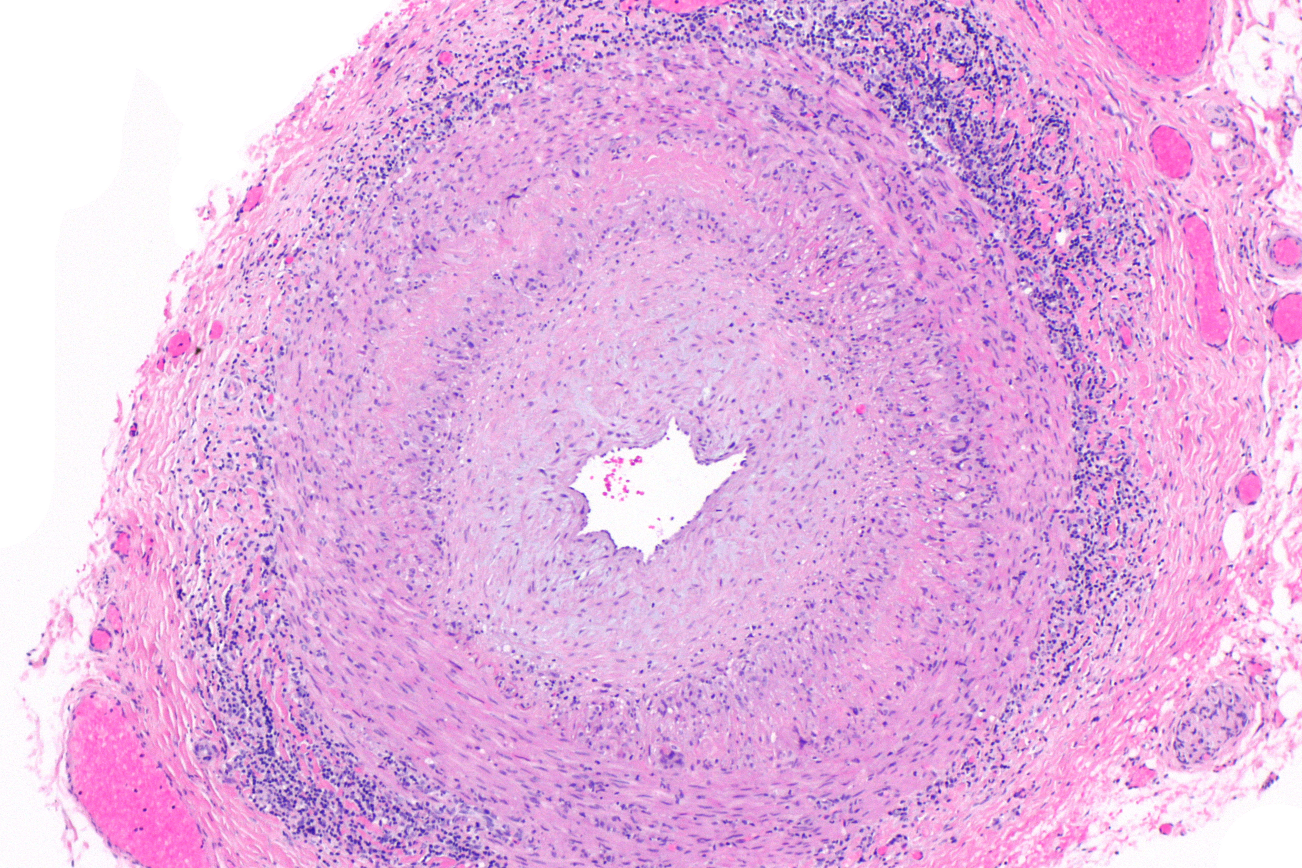 Micrograph of giant cell arteritis (also temporal arteritis). H&E stain. See also GCA - very low mag. GCA - low mag. GCA - intermed. mag. GCA - high mag. GCA - intermed mag. GCA - high mag.